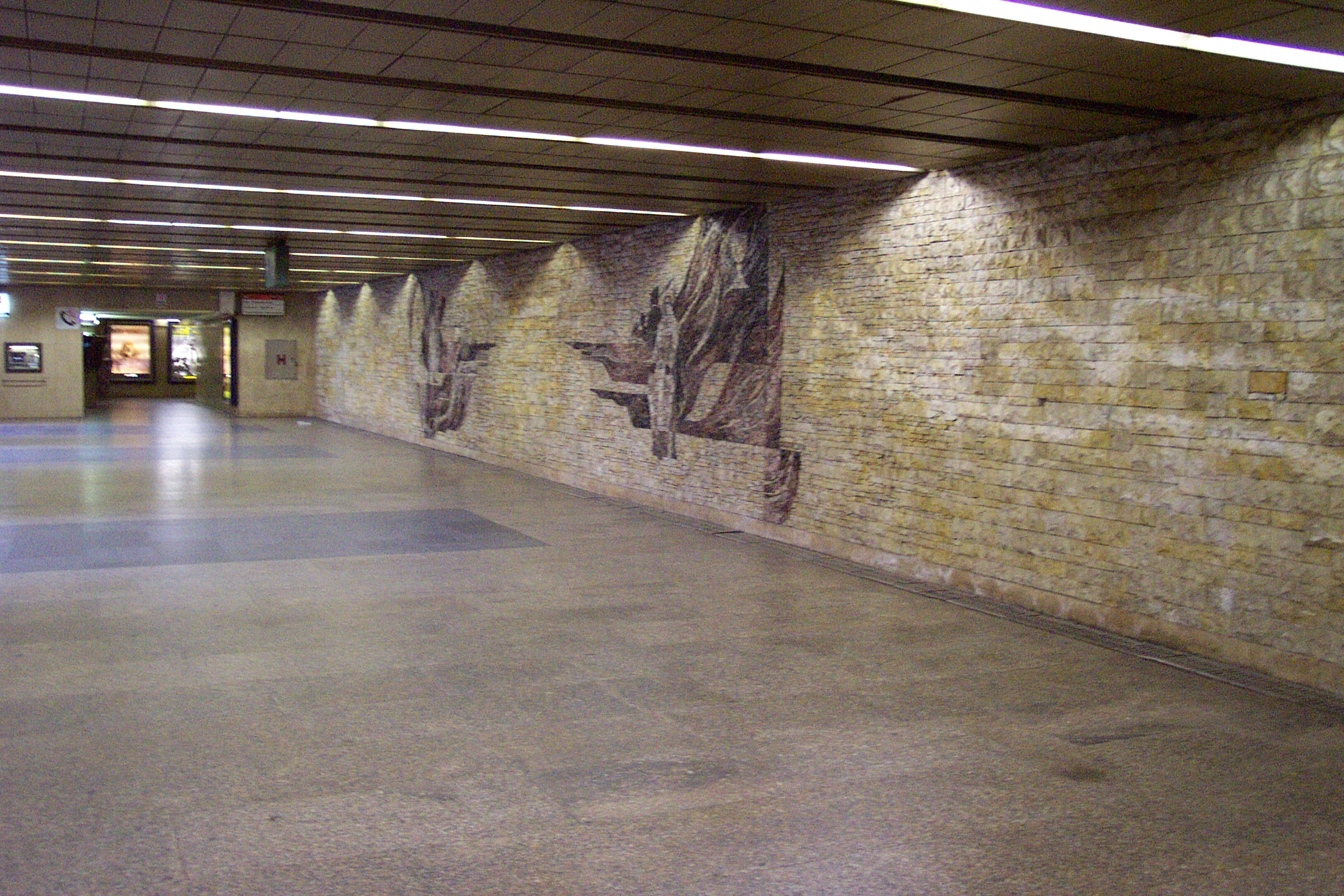 Metro station Želivského, Prague, CZ